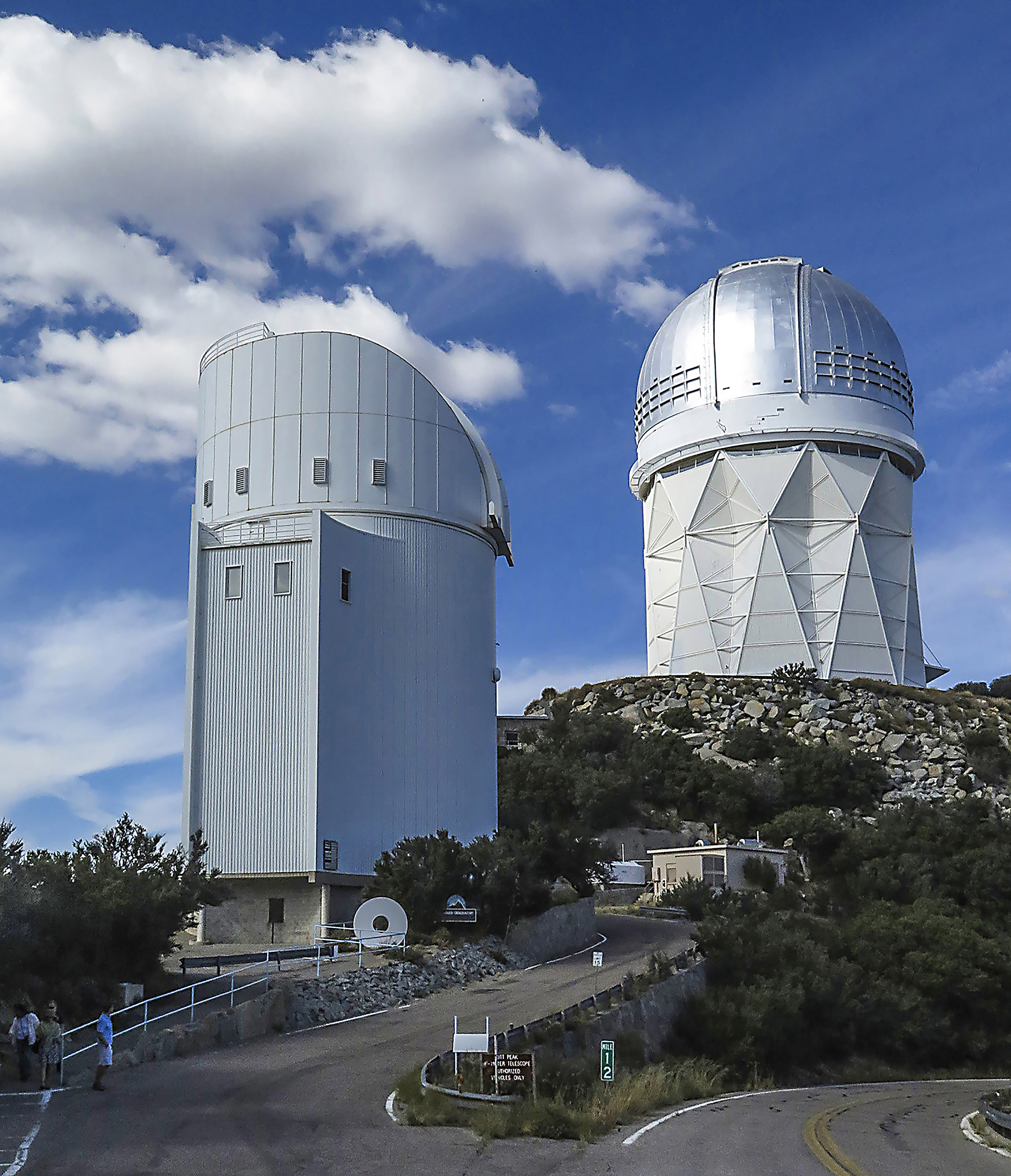 2.3m & 4m telescopes at Kitt Peak National Observatory 2